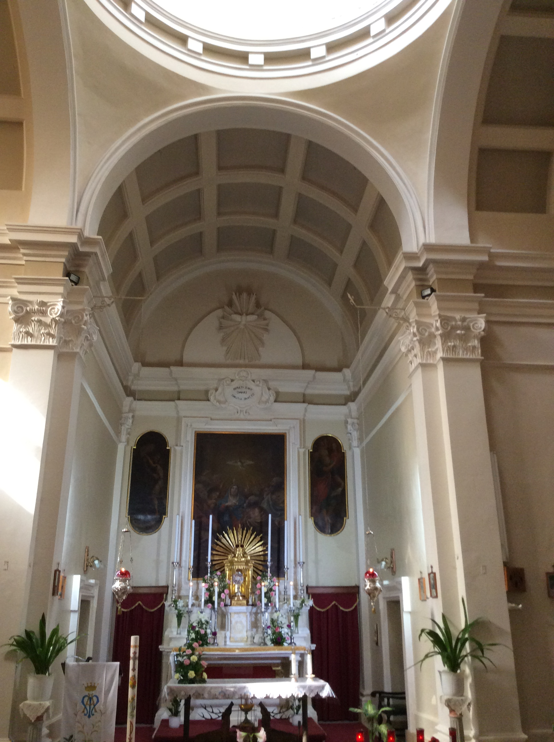 Chapel of the Holy Spirit, Żejtun